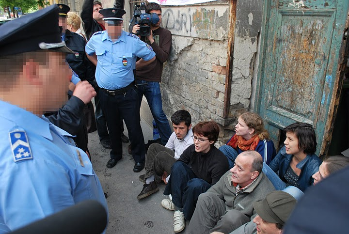 Members of Budapest based grassroots organization The City is for All in a direct action against a forced eviction